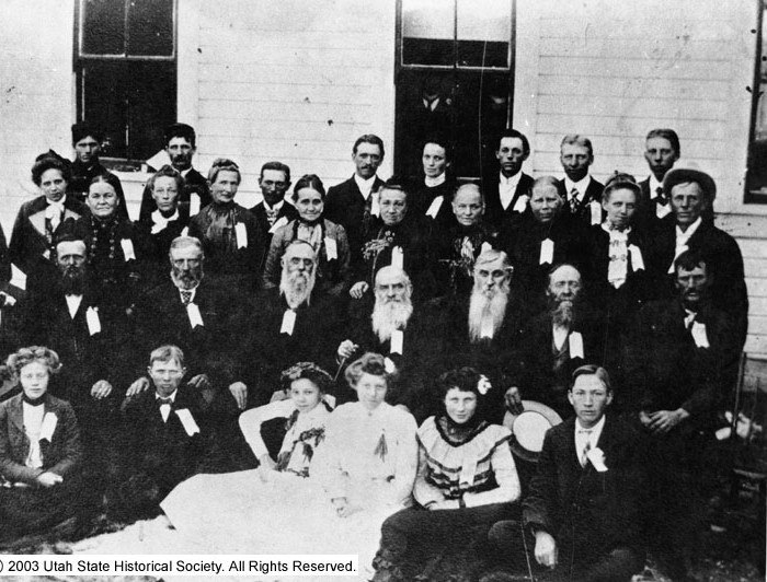 Photograph of some of the original Latter-day Saint settlers of Cardston, Alberta, including Charles Ora Card, for whom Cardston was named. He is pictured on the second row, fourth from left. Paper print. 7 in. x 5 in. Courtesy of the Utah State Historical Society.